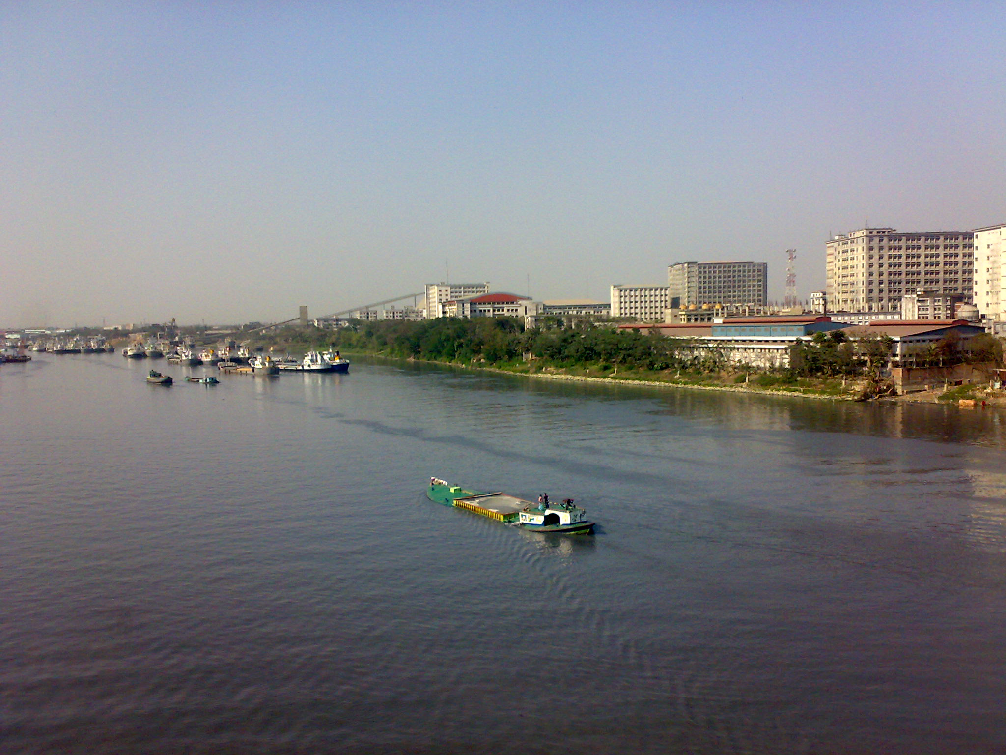 Kanchpur Industrial Area from Shitalaksha river view, Kanchpur, Pupgonj, Narayangonj.